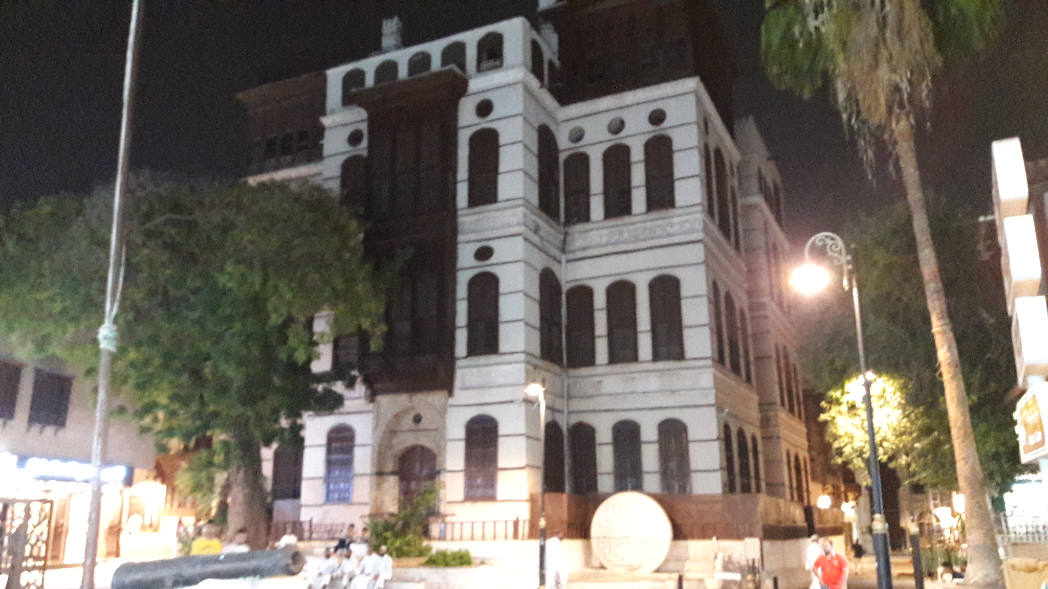 Naseef House, Old Jeddah